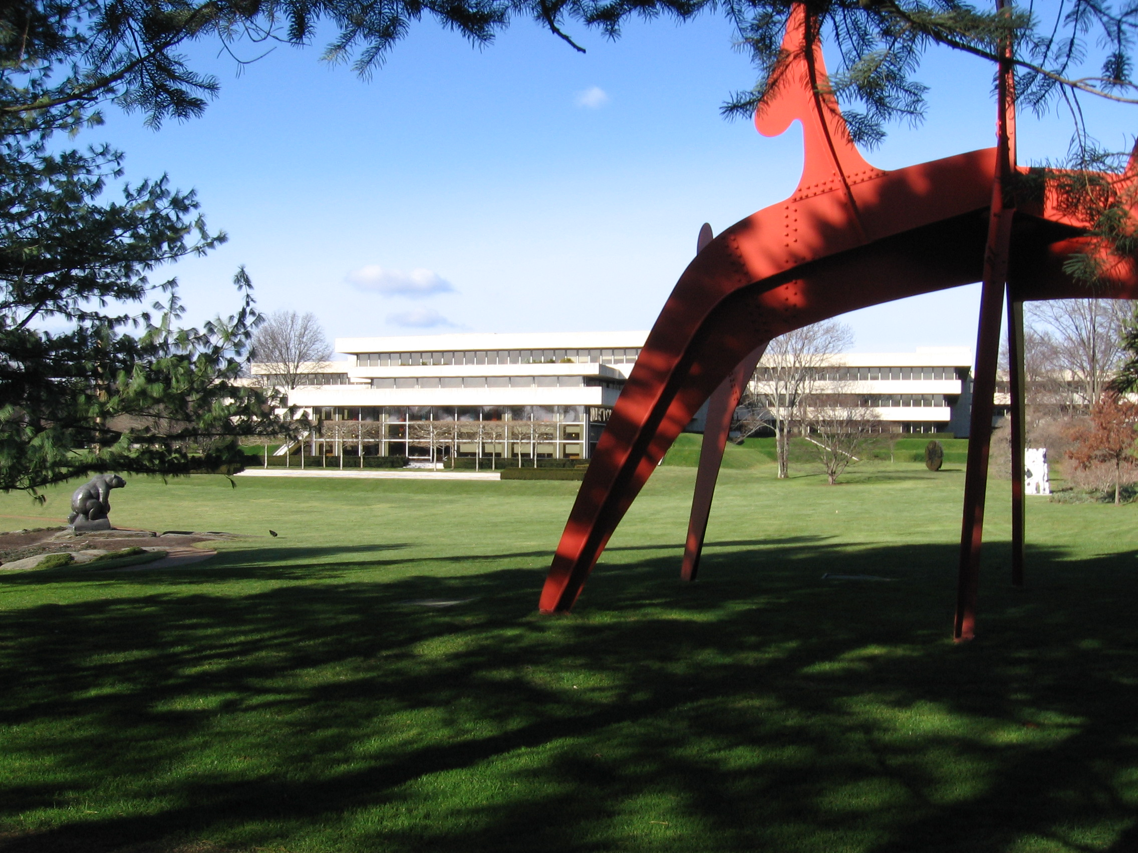 Looking north at PepsiCo World Headquarters building in Purchase, New York through the Donald M. Kendall Sculpture Gardens. Part of Alexander Calder's "Hats Off" sculpture (in red) can be seen at right, in the distance (at left) is David Wynne's "Grizzly Bear", and a third sculpture can be seen in the distance at the right. The "upside down zugarat" form of the building can be seen, as well.